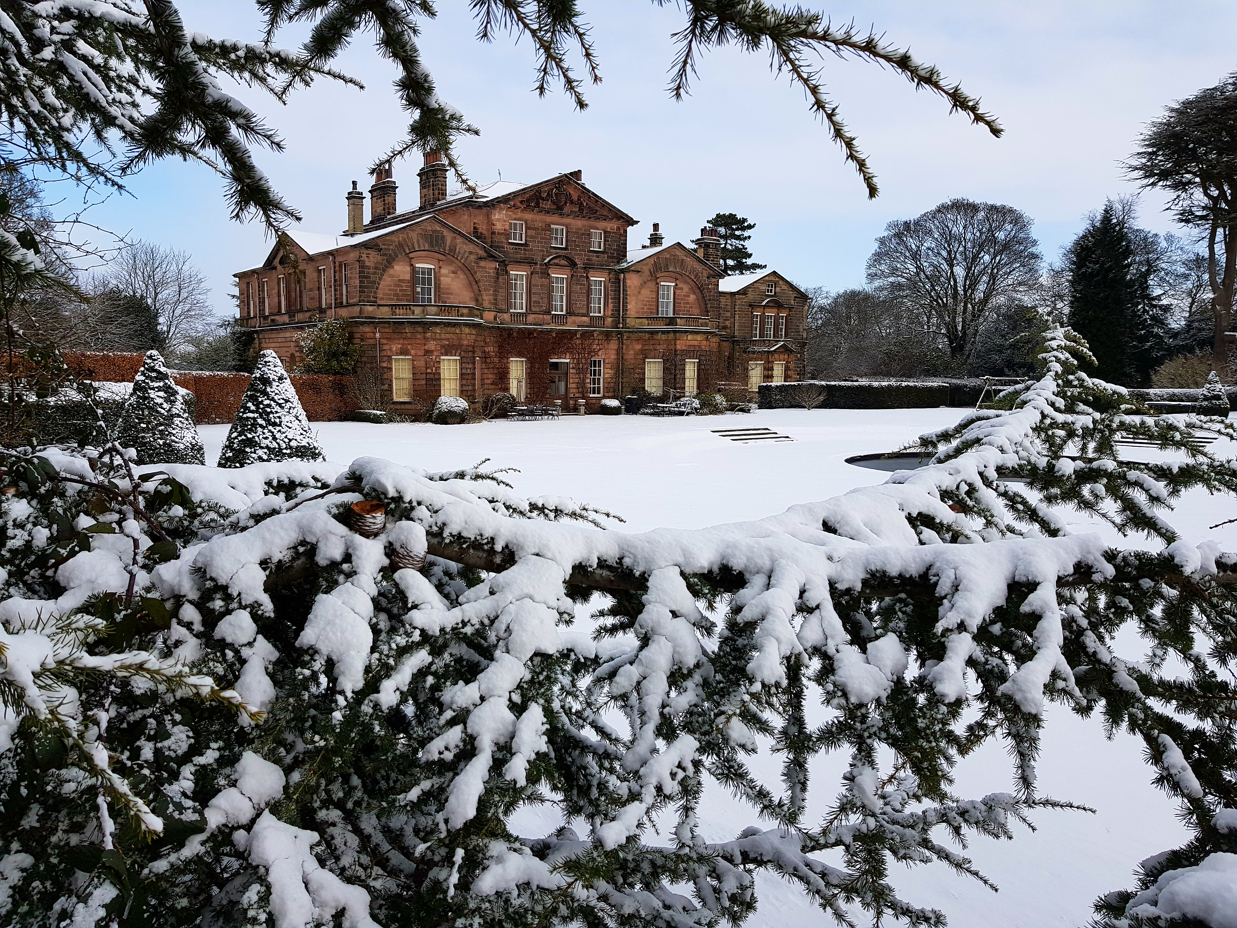 Picture of Stockeld Park in North Yorkshire, England.